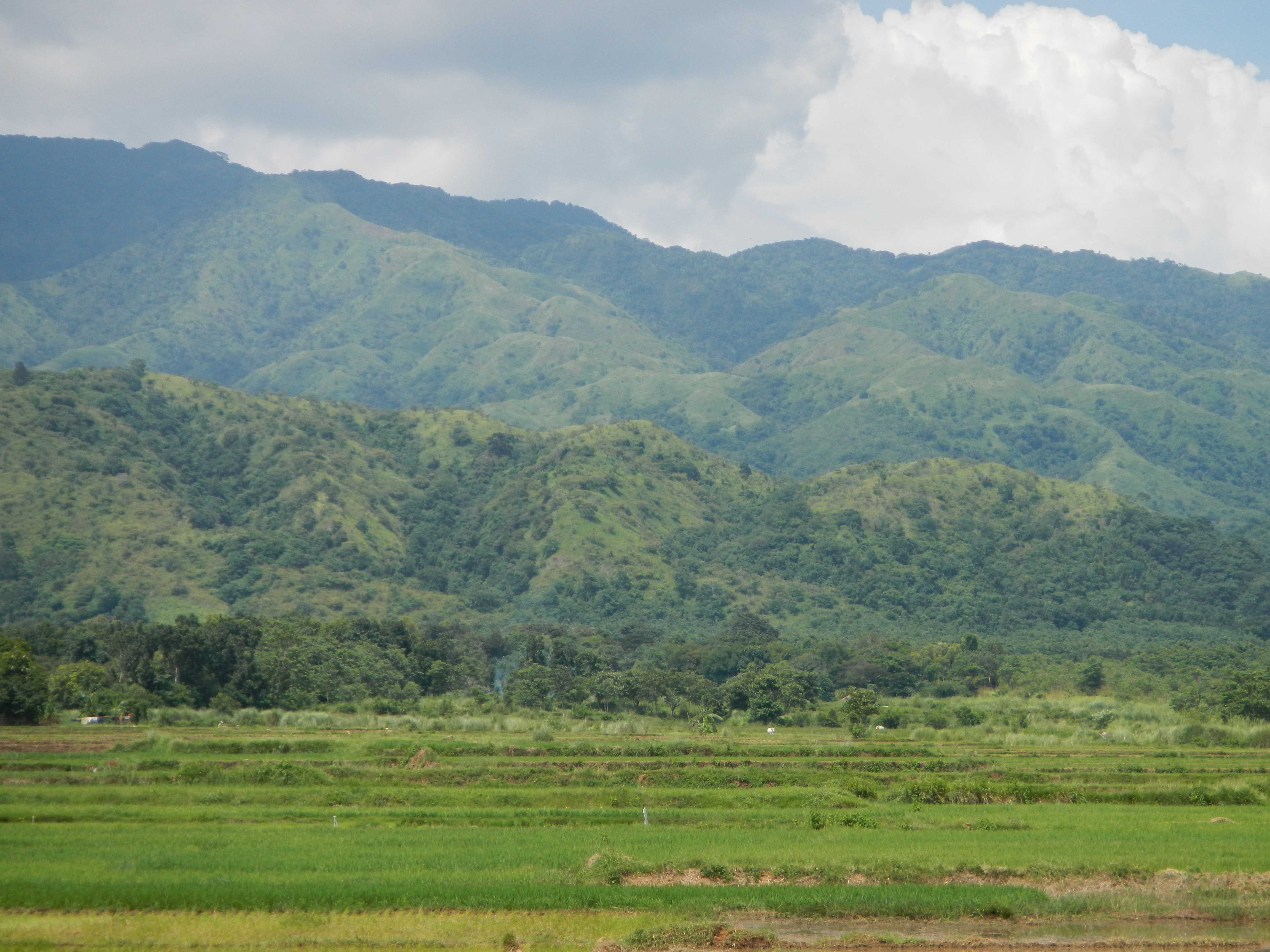 Welcome Arch of a) Pangasinan Province, b) Umingan, Pangasinan[1] Website (a first-class municipality in the province of Pangasinan[2], Philippines. According to the 2010 census, it has a population of 67,534 people. Land Area: 258.43 km² [3] Coordinates: 15°53'31"N 120°49'7"E ZIP Code: 2443) - Umingan bridge lookin' east towards Caraballo mountain range [4] Alo-o Bridge Km 176 + 705, Barangay Alo-o & Barangay San Roque, Lupao, Nueva Ecija [5] - 3rd Pangasinan District Highway Boundary Km 176 + 705 + 815. - Umingan. Umingan is located at the foot of the Caraballo Mountains[6] is a mountain range in the central part of Luzon, Philippines. It is located between Cordillera Central [7] and Sierra Madre mountain [8] ranges, at 16.1855556°N 121.1441667°E Coordinates: 16.1855556°N 121.1441667°E. This Caraballo Mountains are the location of the headwaters of the Cagayan River.[9] 16° 7' 13.32" N 120° 55' 42.87" E.